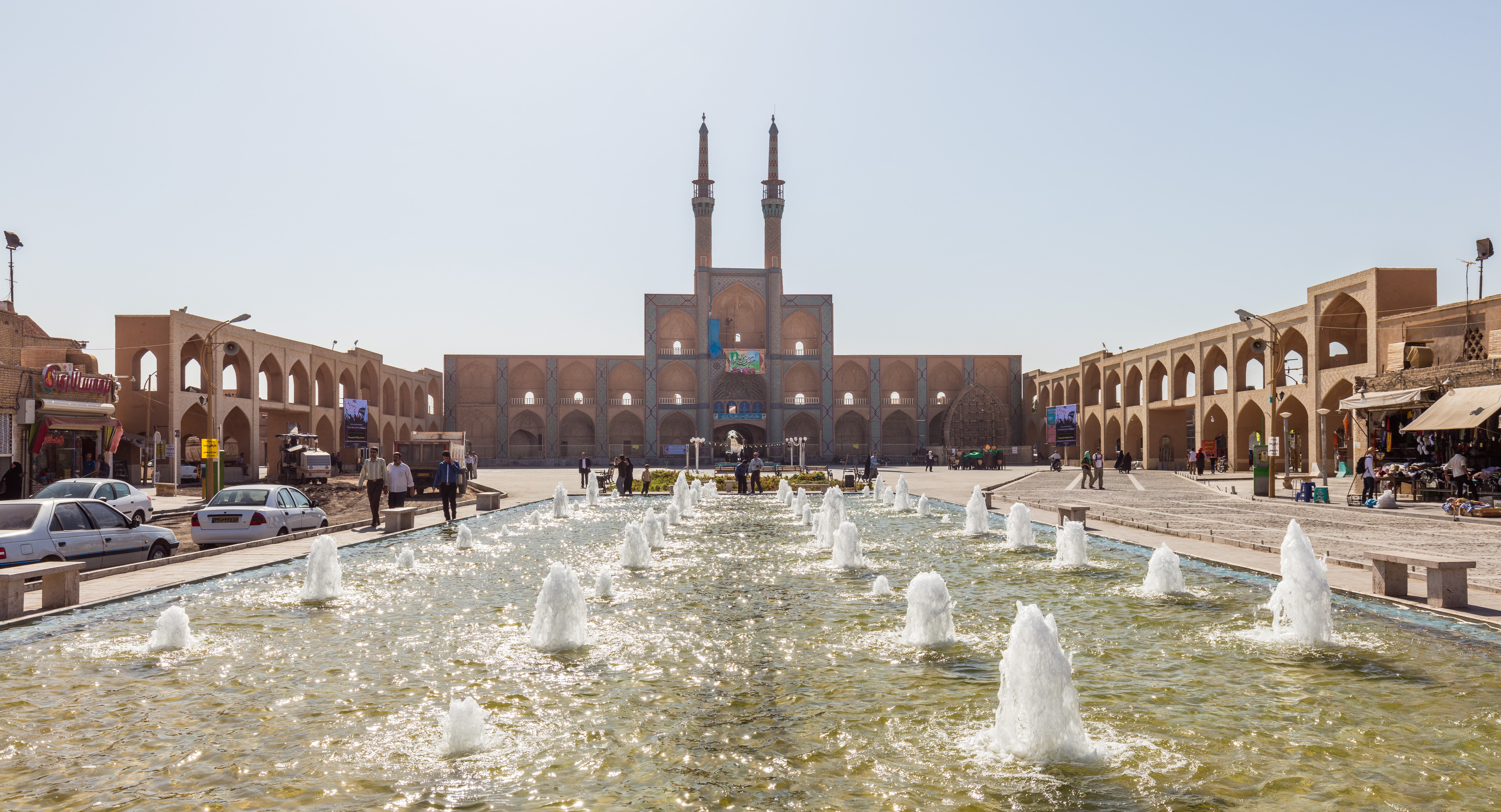 Amir Chakmaq Complex, Iran